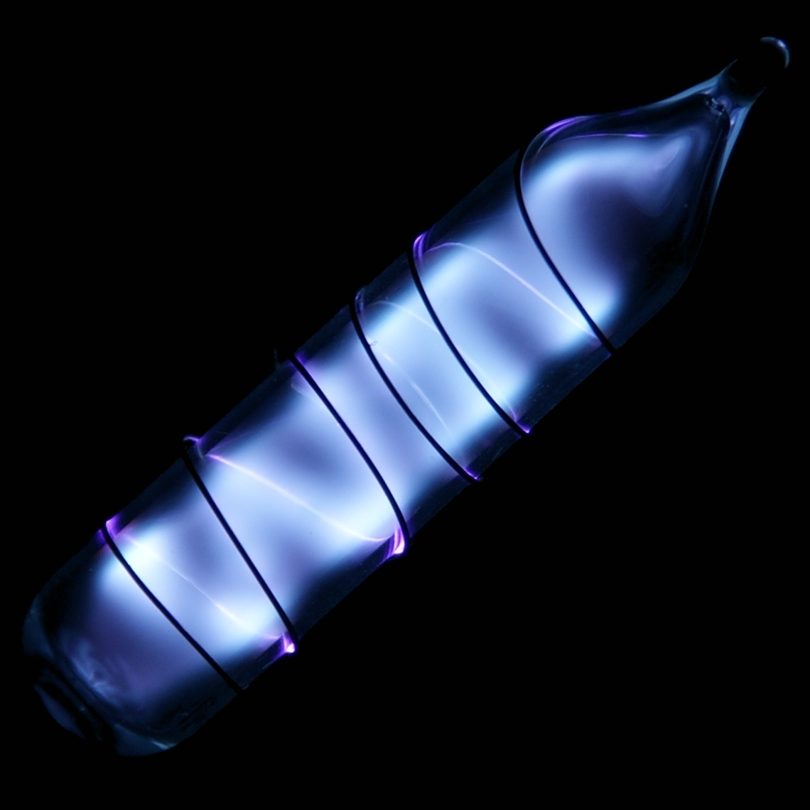 Vial of glowing ultrapure xenon. Original size in cm: 1 x 5